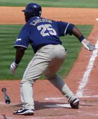 Picture I took on 5-10-07 23:54, 13 May 2007 . . Chrisjnelson . . 202×245 (99,974 bytes)